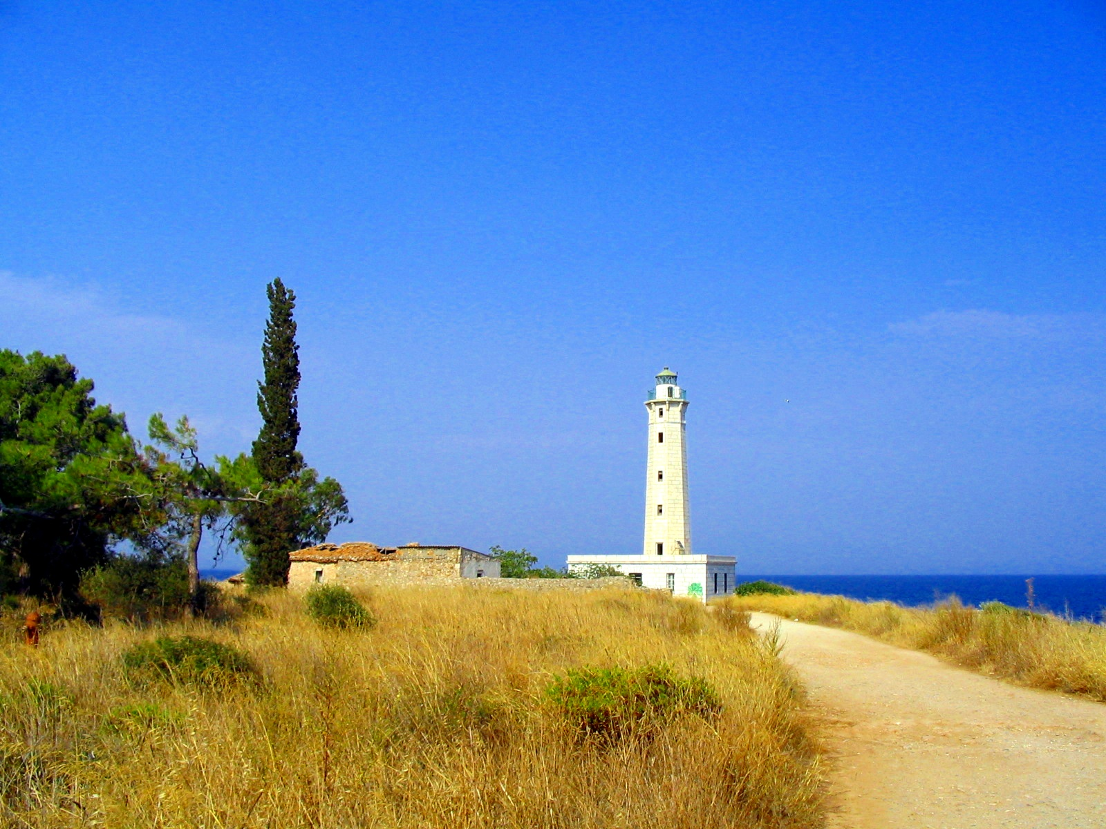 Beacon at Marathonisi, Greece